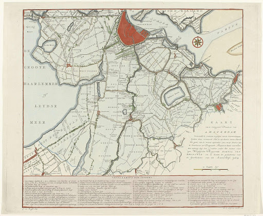 Map of Amsterdam and surroundings with defensive inundations during the Prussian invasion of Holland in September-October 1787. A dotted line indicates the inundations.